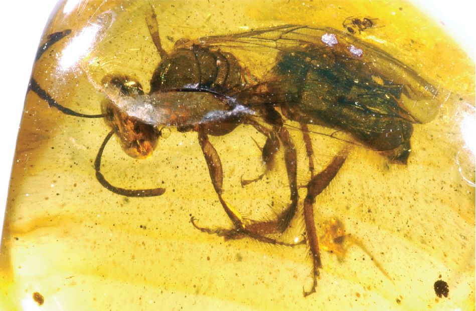 Photomicrograph of holotype female of Oligochlora semirugosa (KU-DR-21). Dorsolateral oblique aspect of holotype.